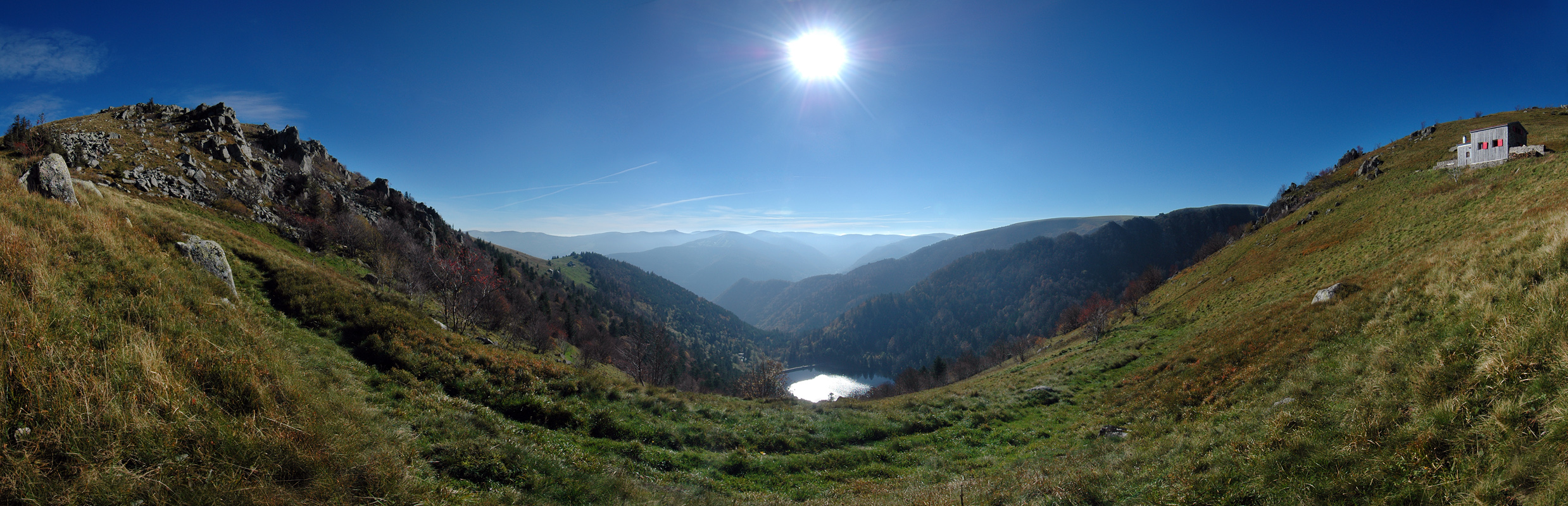 Lac du Schiessrothried vanop de Col du Schaeferthal.